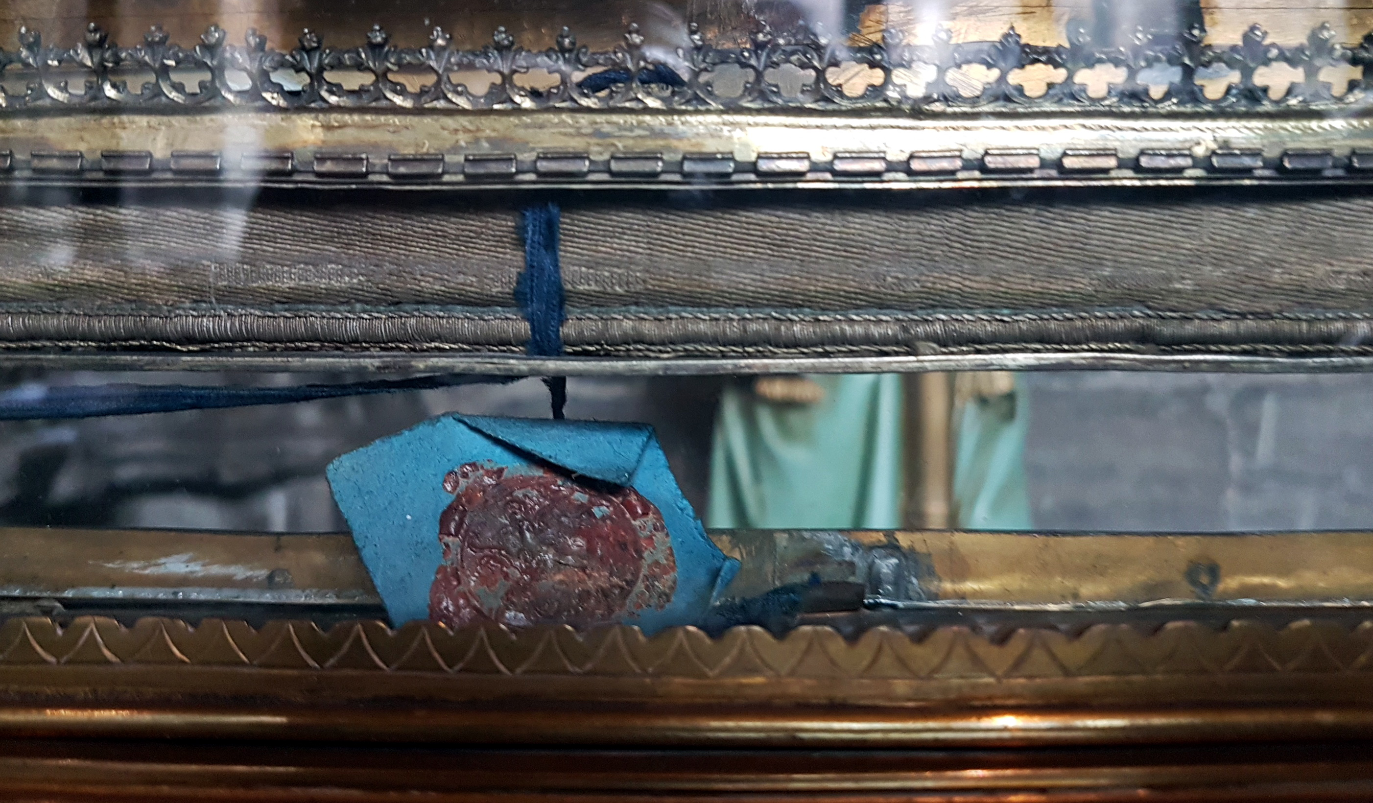 Detail of a reliquary in the cloisters of the Basilica of Our Lady in Maastricht, Netherlands. The objects from the church's treasury are shown here in preparation of the veneration of the relics in the church on Saturday 2 June. This is part of the Heiligdomsvaart ("relics pilgrimage") celebrations, a religious and historic event that takes place once in seven years and dates back to the Middle Ages. This 19th-century reliquary contains a smaller 14th-century reliquary with the girdle of the Virgin Mary. As with many of the church's treasures, the larger part of this reliquary was melted down during the French occupation (1794-1814) in order to pay for war taxes.